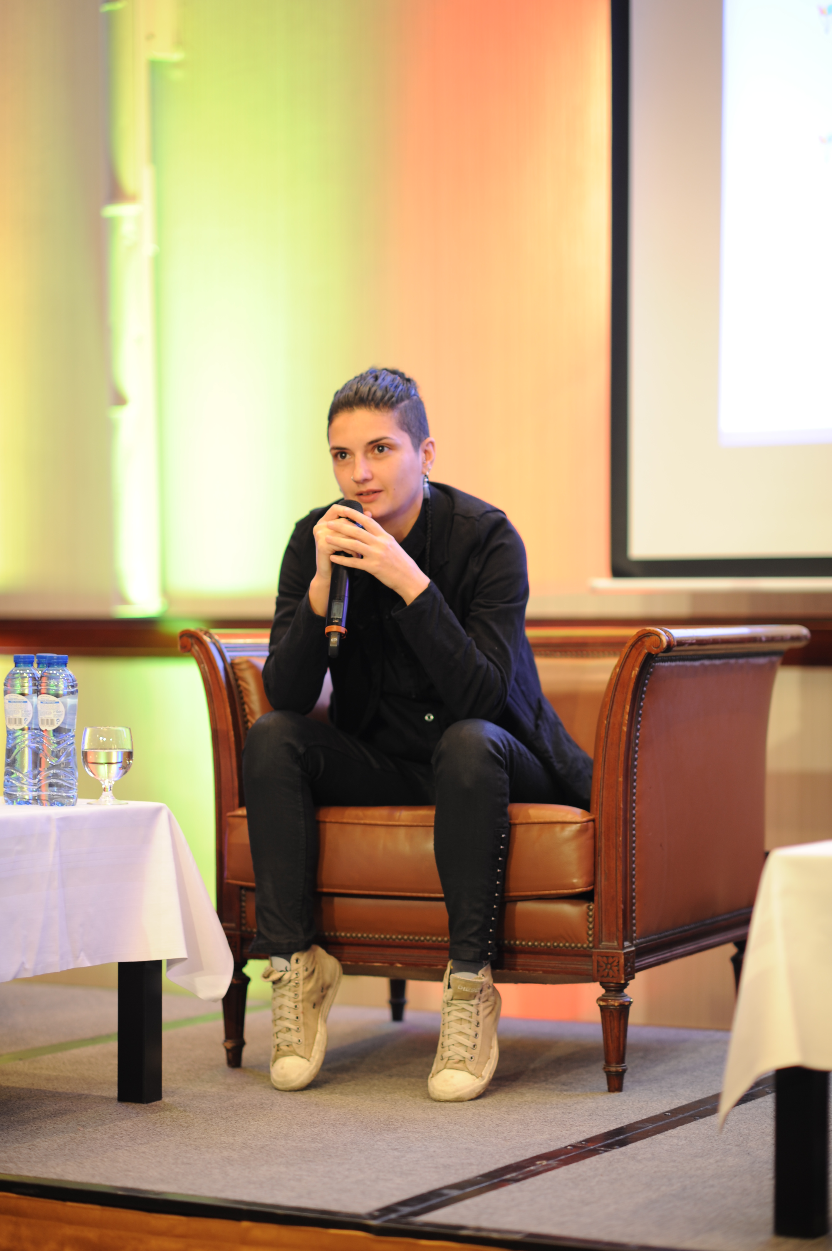 Xheni Karaj at ILGA conference 2018 "Building Power" debate